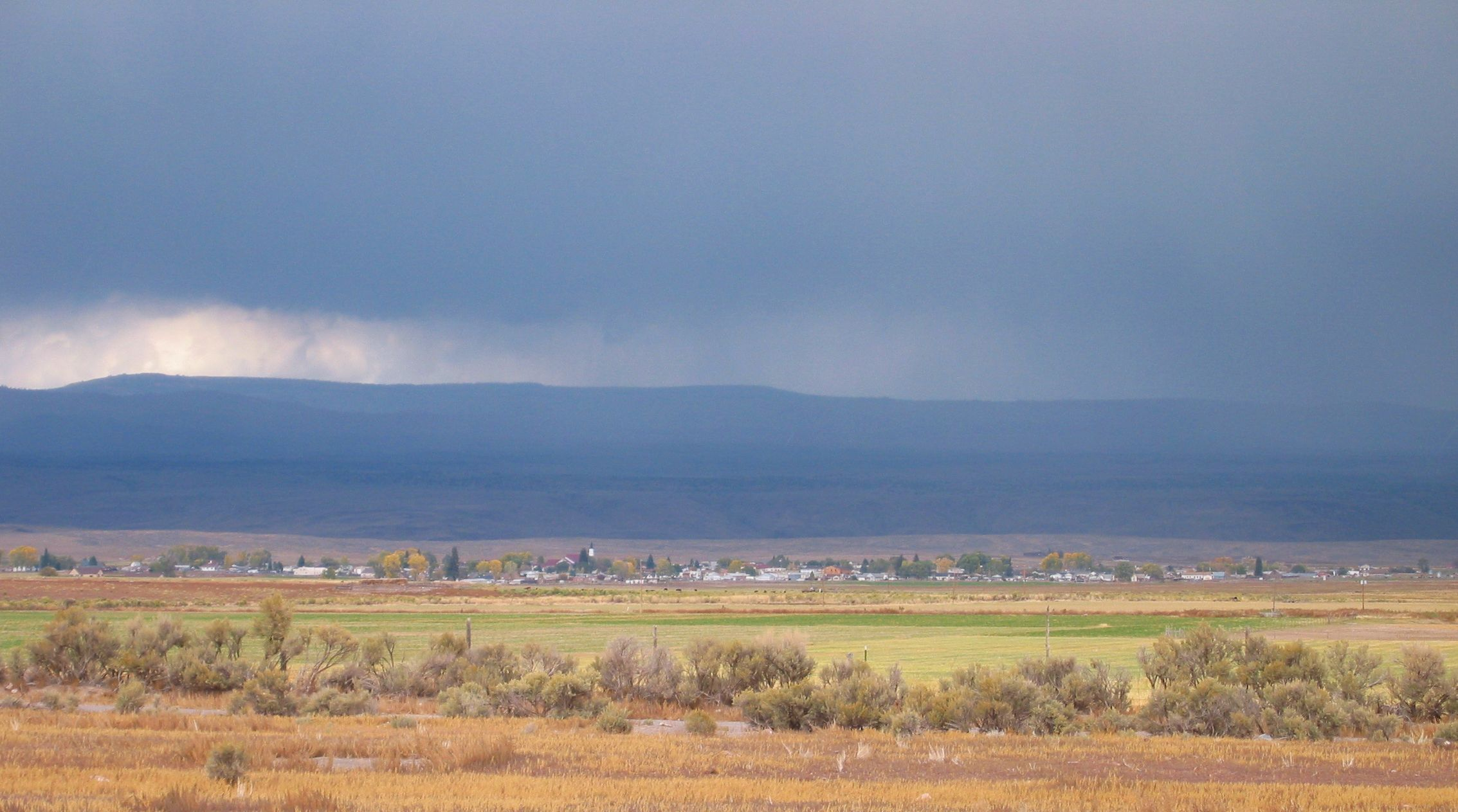 Heavy rain falling over Loa, Utah Picture taken by User:Bob Palin 10/2/2004